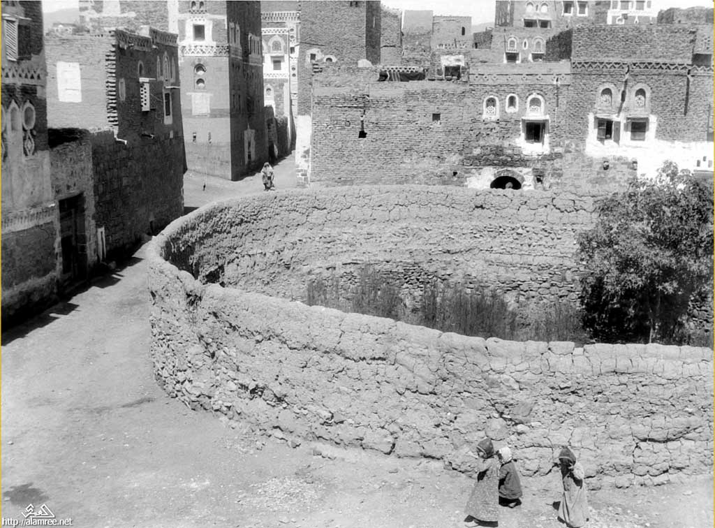 Pictures of the remains of the Kaaba Abraha in 1942